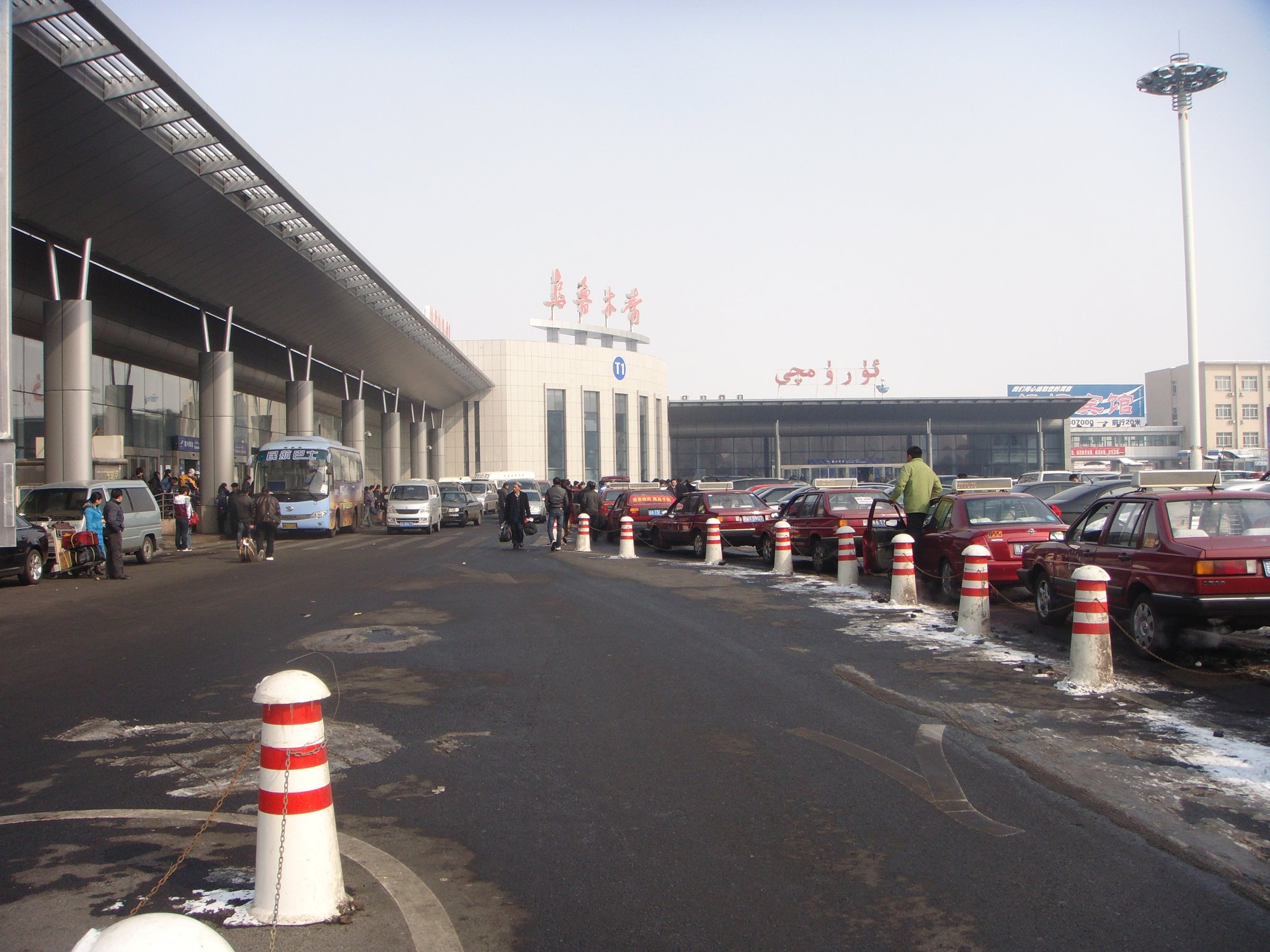 View of Terminal 1, Urumqi Airport, Urumqi, Xinjiang Uyghur Autonomous Region, People's Republic of China